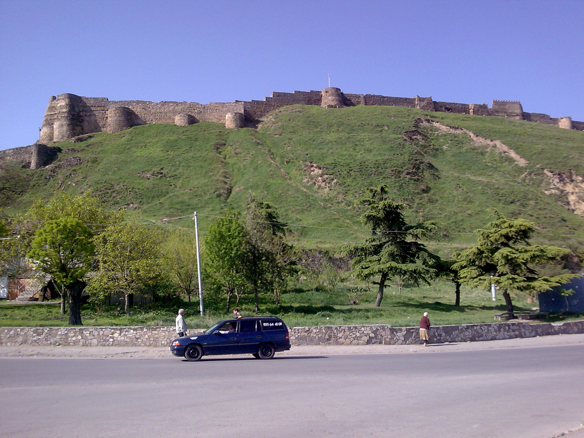 Goris-Tsikhe, Georgia